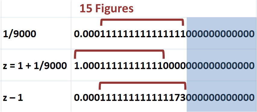 Fifteen figure accuracy in Excel